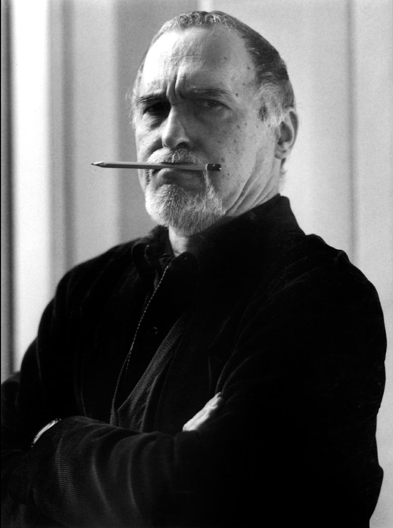 Ritratto del pittore Wolfango Peretti Poggi